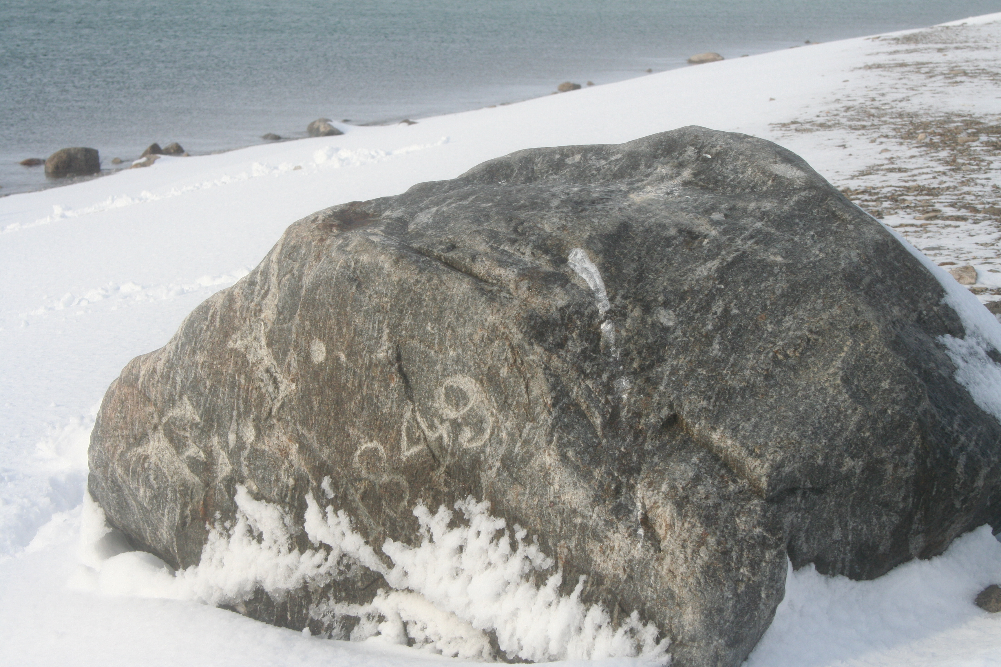 A graffitied rock ("E.I. 1849") on Somerset Island in the Canadian High Arctic, left by the crews of HMS Enterprise and HMS Investigator who were searching for the lost Franklin expedition in the North West Passage.